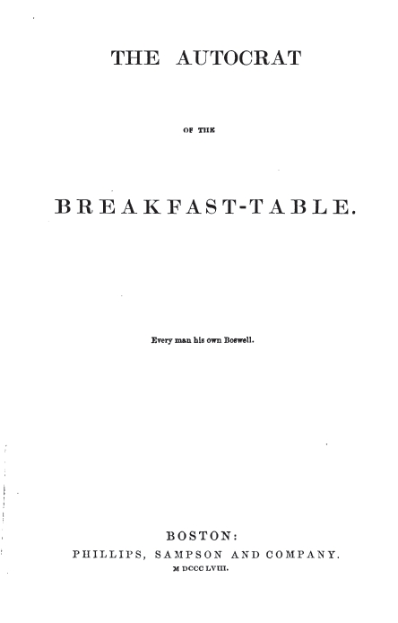 Title page for The Autocrat of the Breakfast-Table by American author Oliver Wendell Holmes, Sr. Published 1858 by Phillips, Sampson and Company.